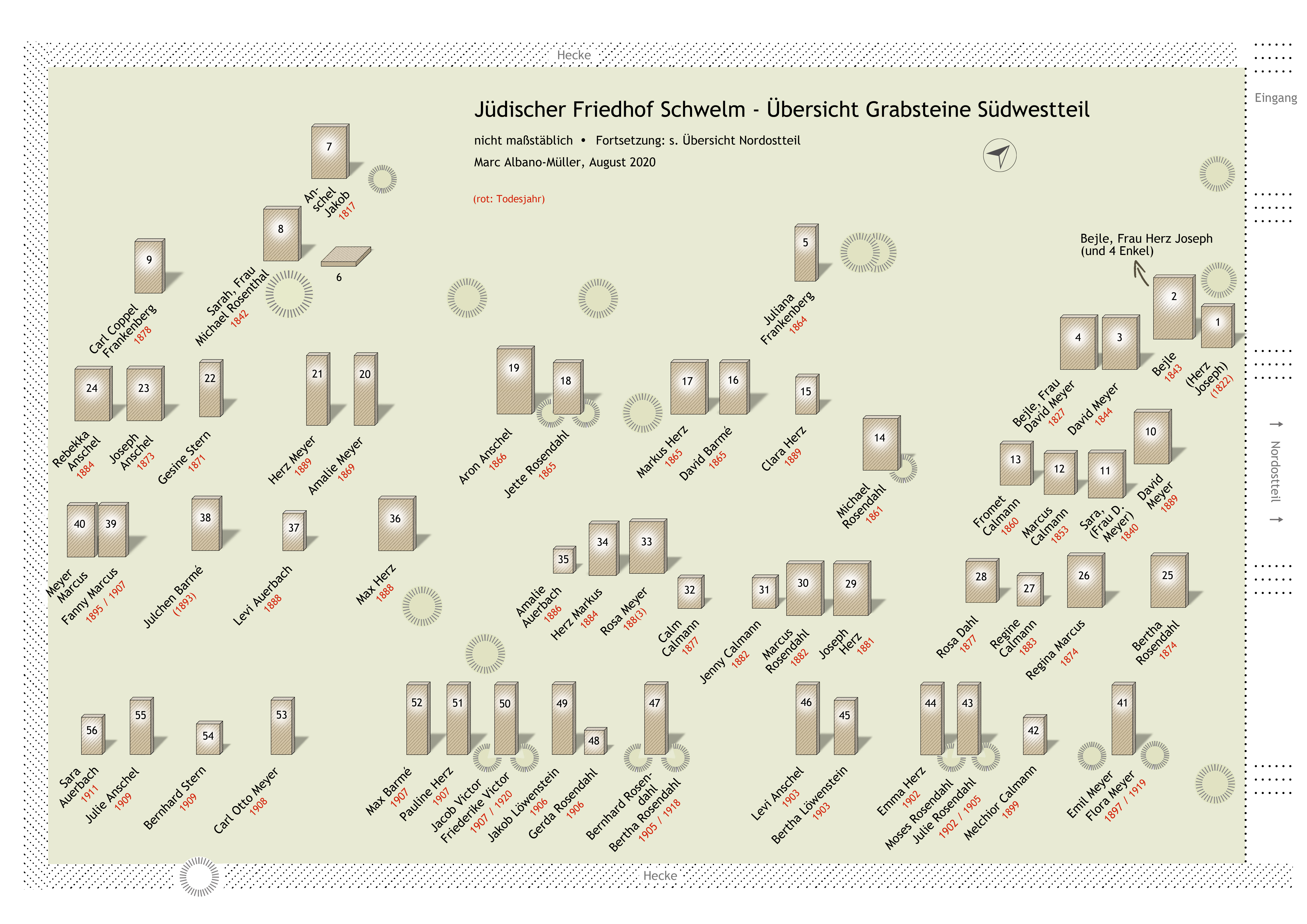 Jewish cemetery Schwelm - Site plan, Part 1 (Southwestern part)